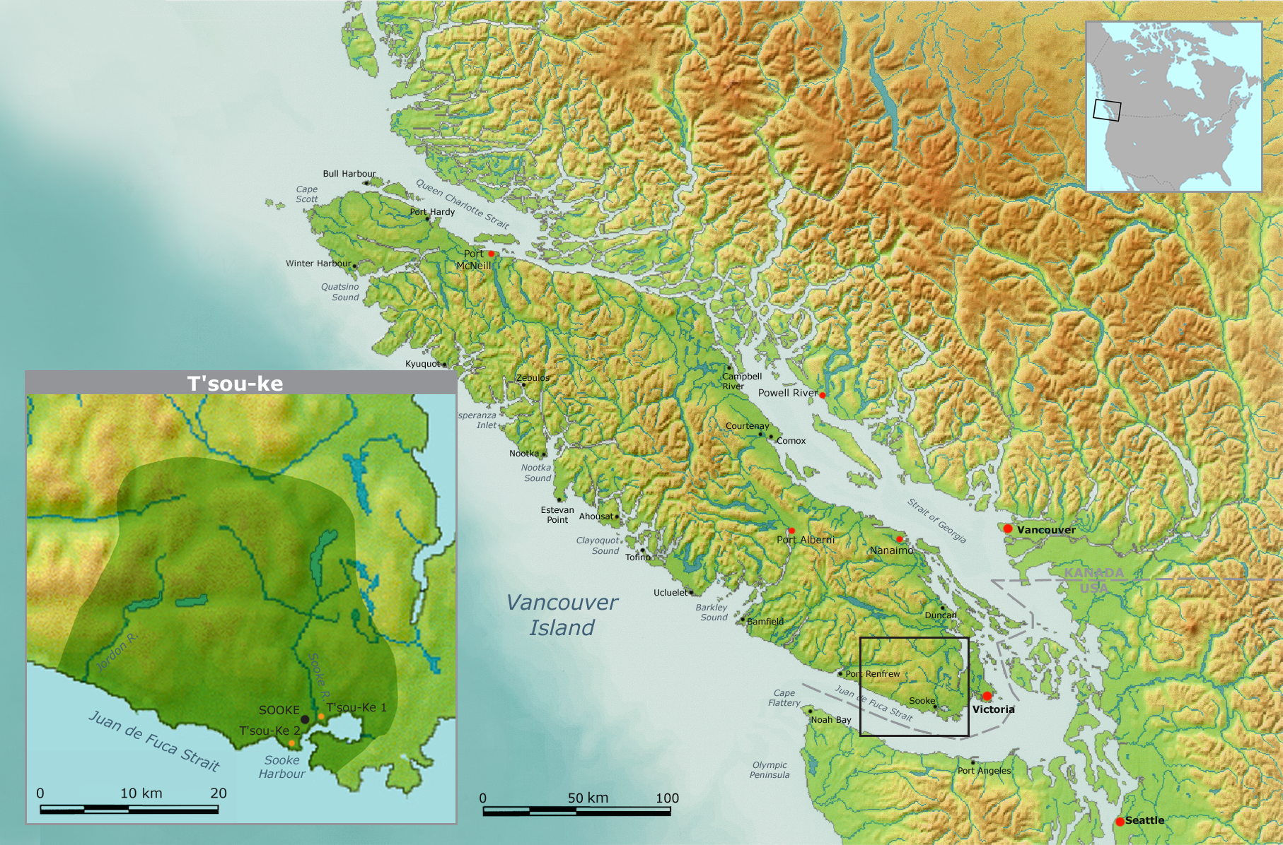 Map of traditional T'sou-ke tribal territory.